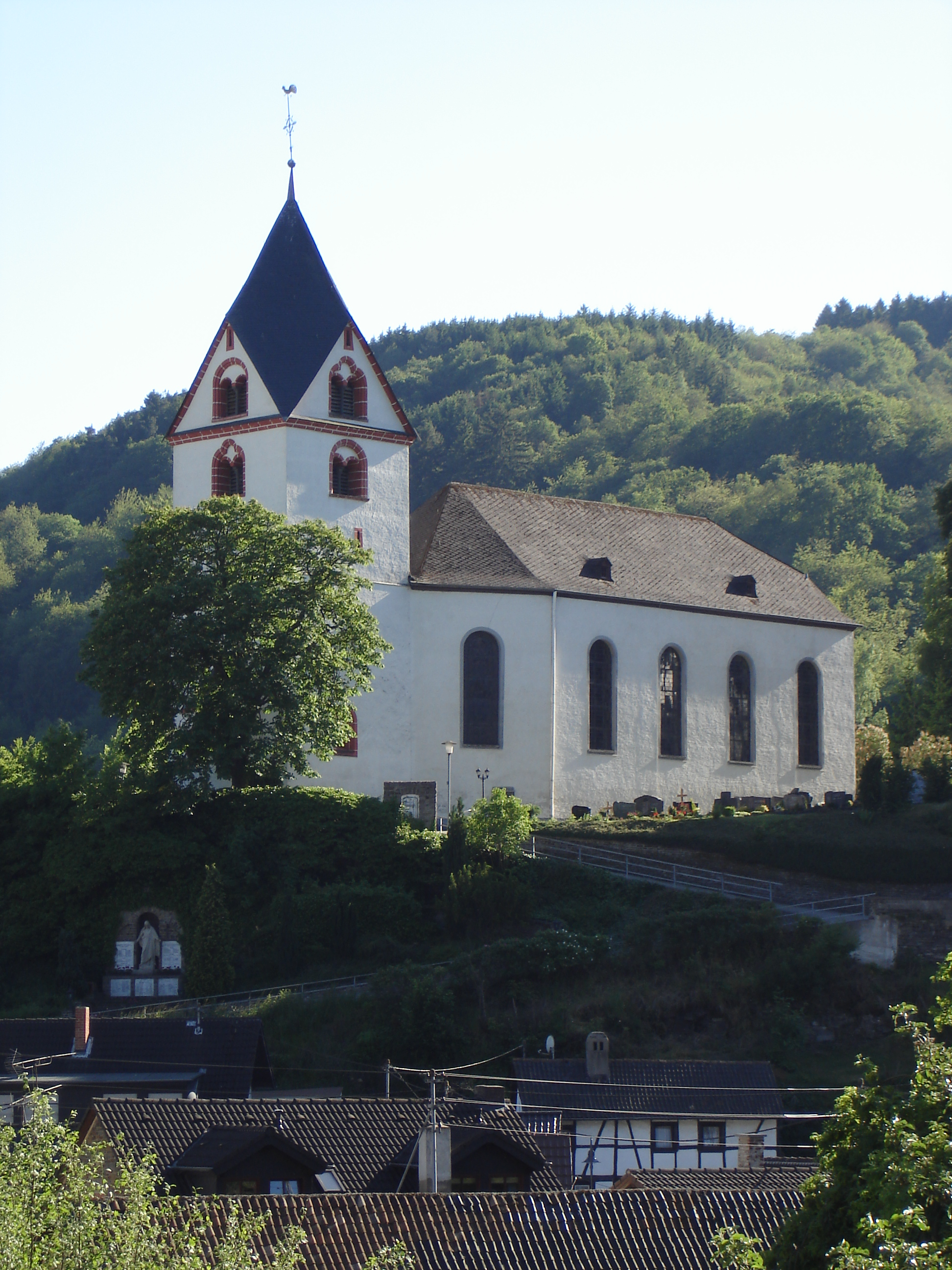 view over Kesseling